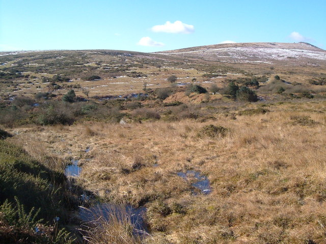 Bagtor Down. The River Sig rises in this somewhat inaccessible square; here a little tributary from Haytor runs to meet it, near evidence of mining. View to SW, with Rippon Tor out of square beyond right. 10:38 am